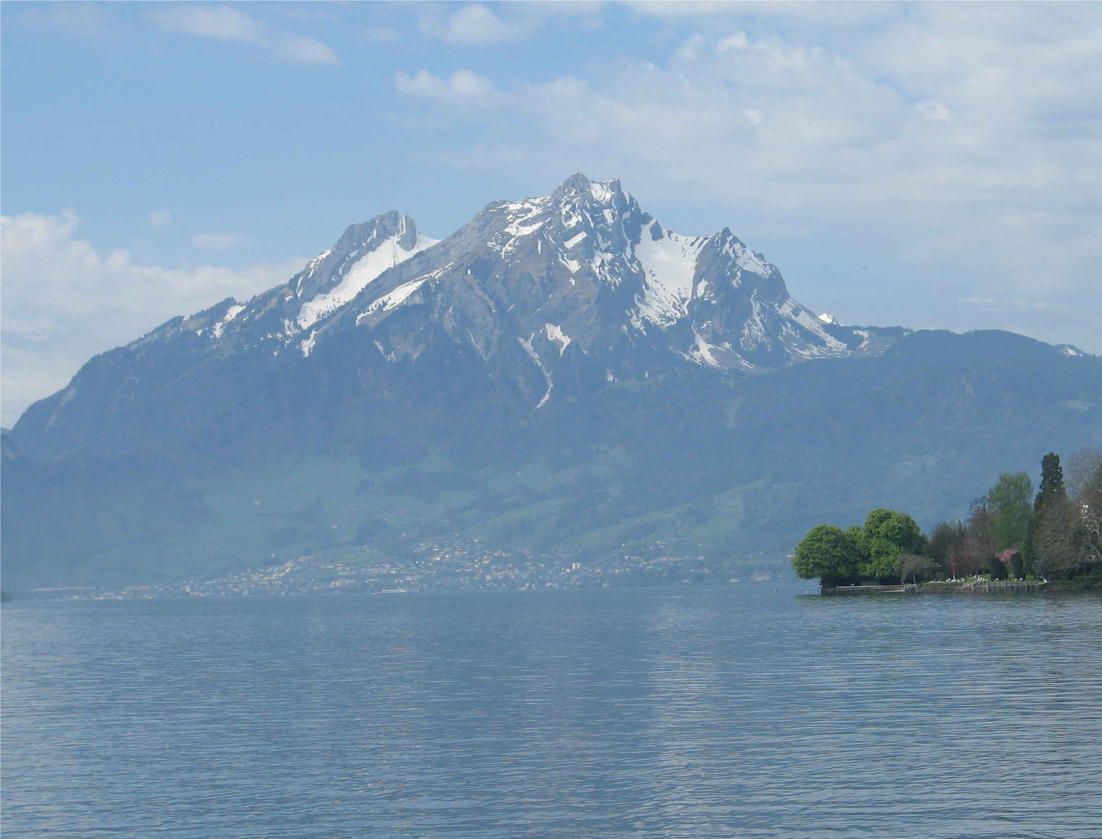 The Pilatus, Switzerland.